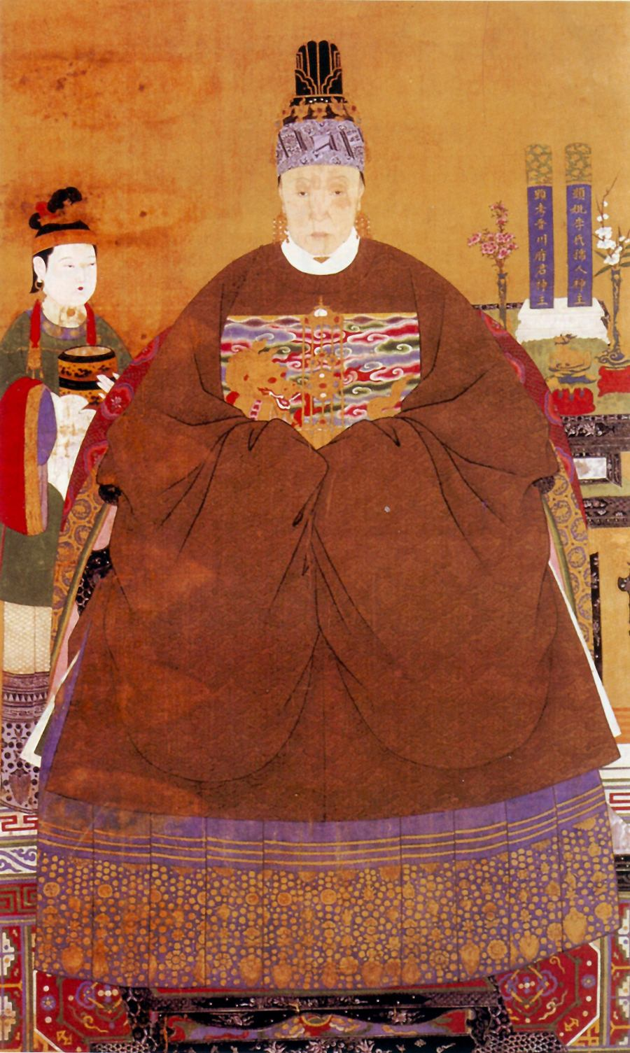 The noble woman.